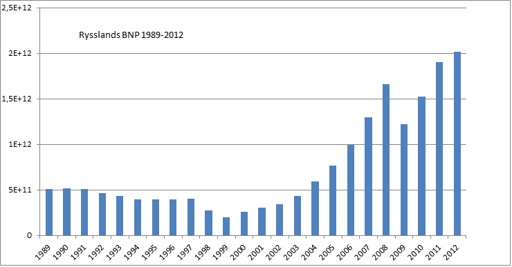 The Russian GDP 1989-2012